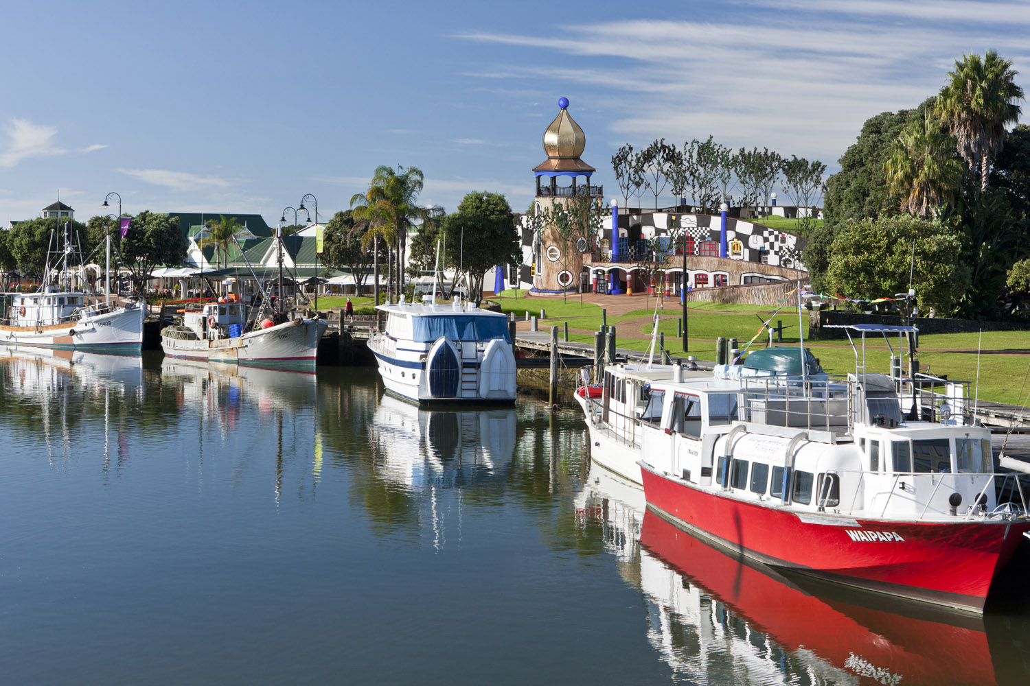 Artistic representation of the proposed Hundertwasser Art Centre in Whangarei